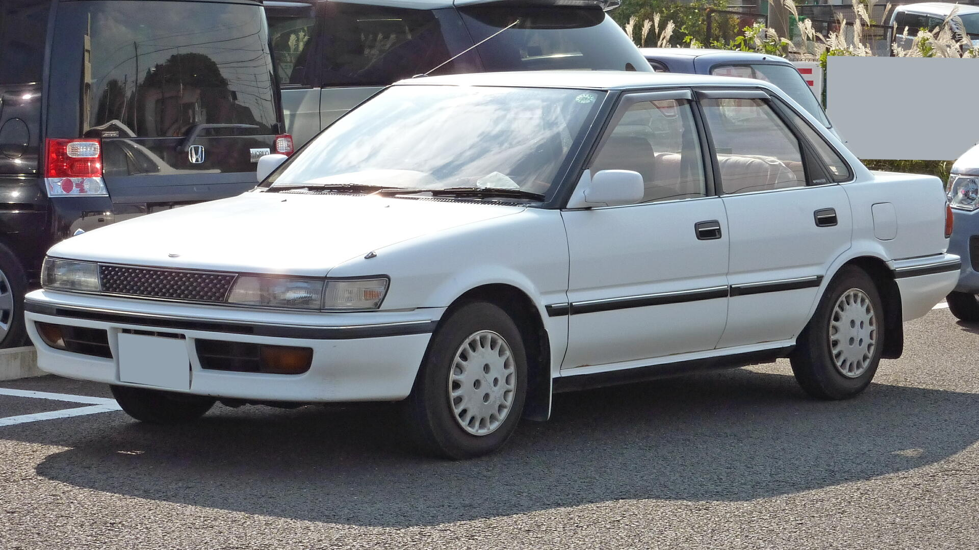 E90-series Toyota Sprinter 1.5 MX-Saloon sedan (AE91)